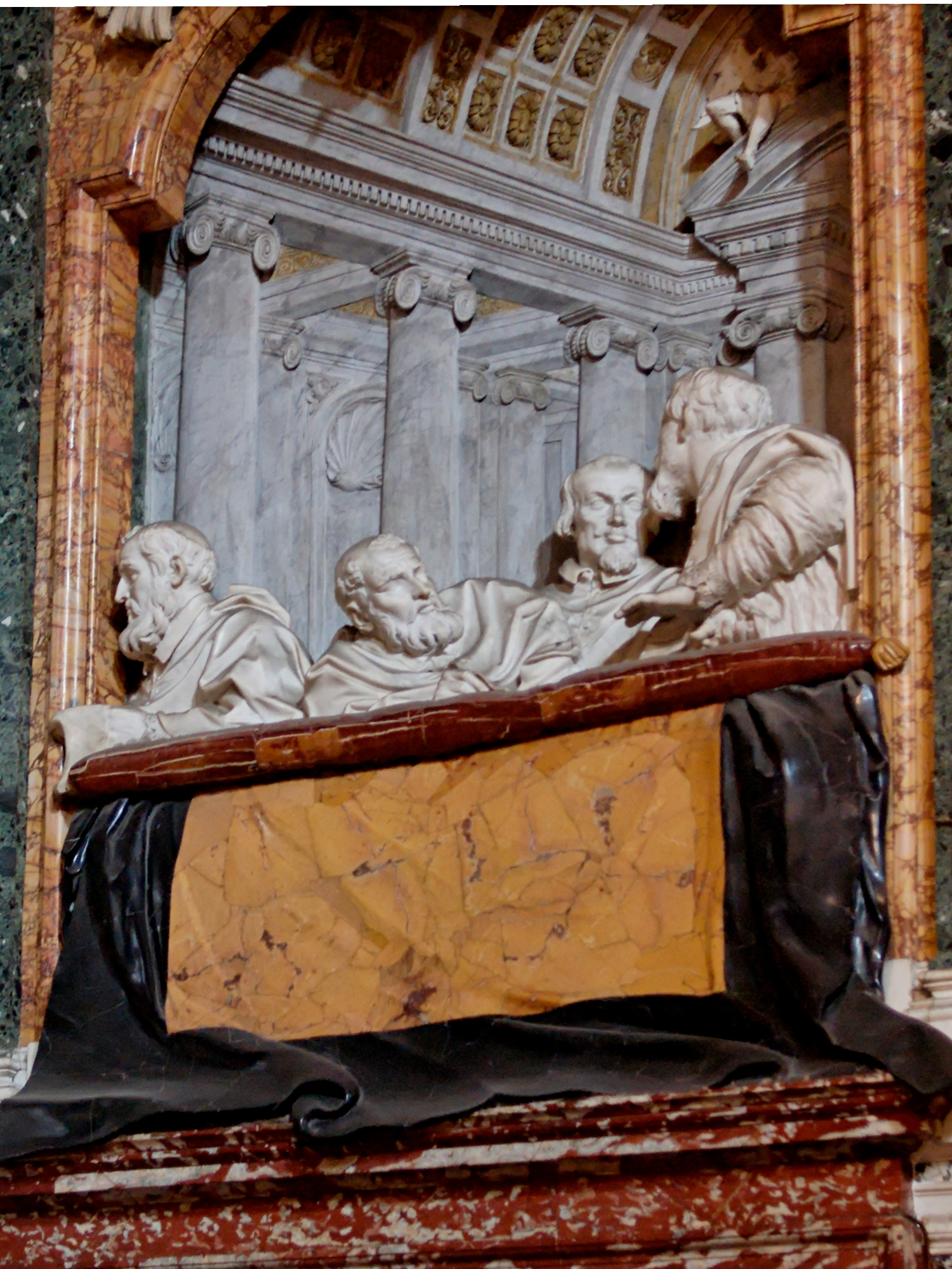 Cardinals of the Venetian Cornaro family assisting to the ecstasy of St. Theresa, by Bernini. Left transept of Santa Maria della Vittoria (17th century) in Rome.